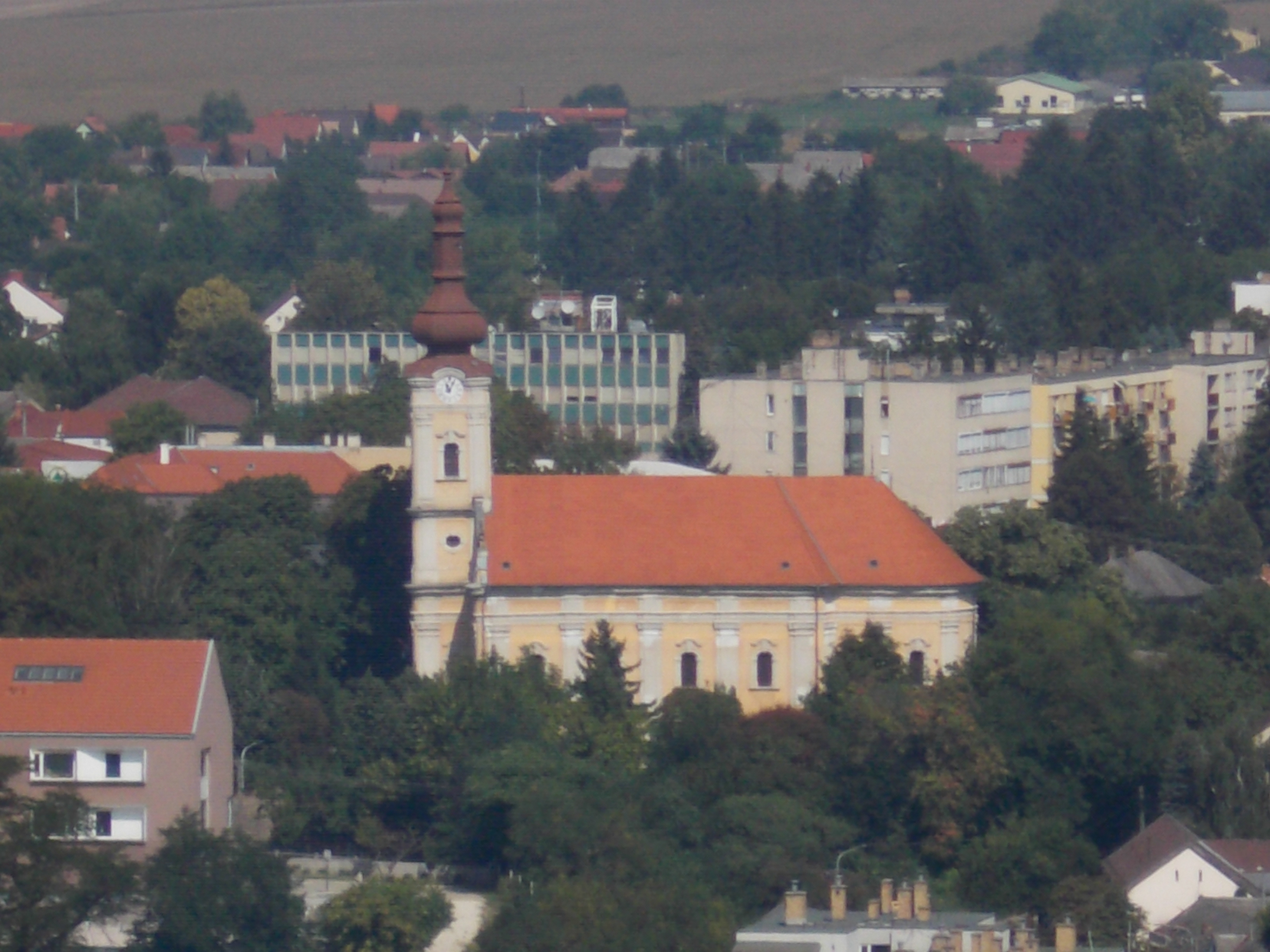 View from Várhegy hill lookout. - Tamási, Tolna County, Hungary.